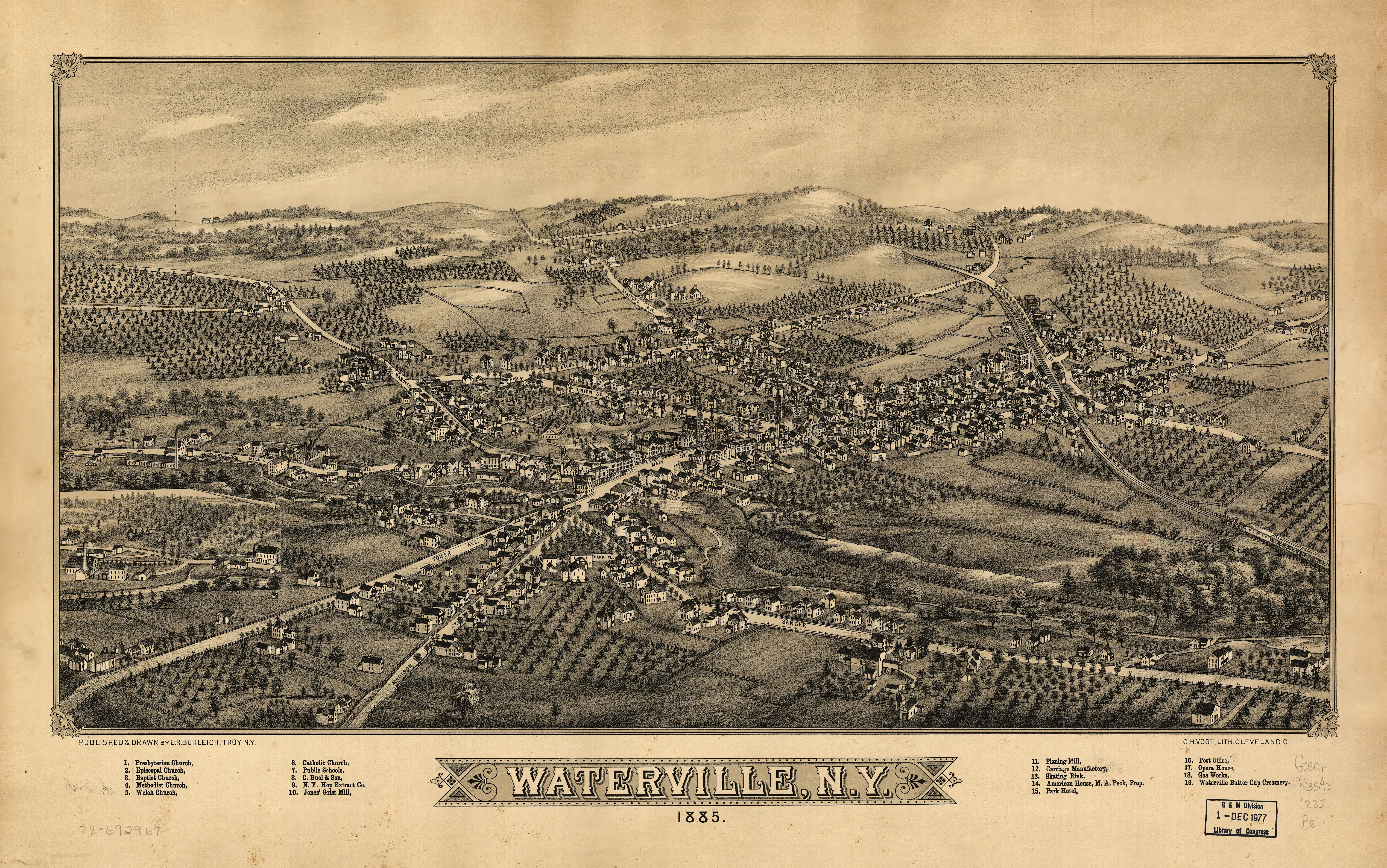 Perspective map not drawn to scale. LC Panoramic maps (2nd ed.), 652.1 Available also through the Library of Congress Web site as a raster image. Includes inset and index to points of interest. AACR2: 100; 710/1